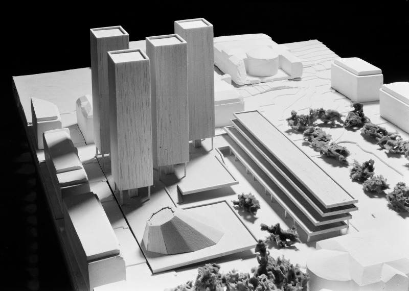 Model of architect Sverre Fehn's proposal for new buildings in the Karl Johan block in downtown Oslo, Norway for a competition i 1962.